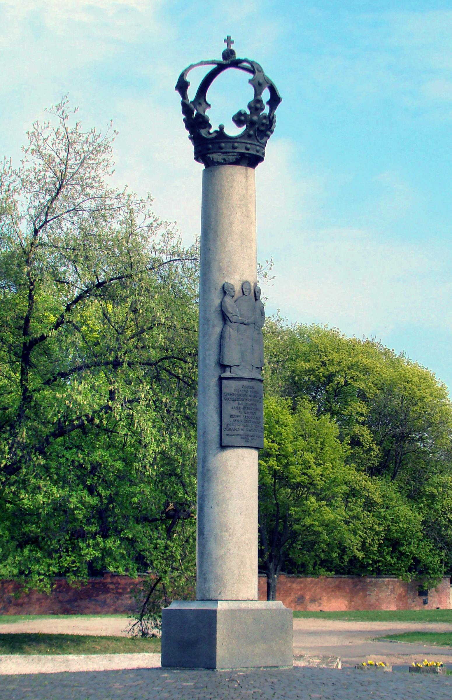 Electio Viritim monument in Warsaw